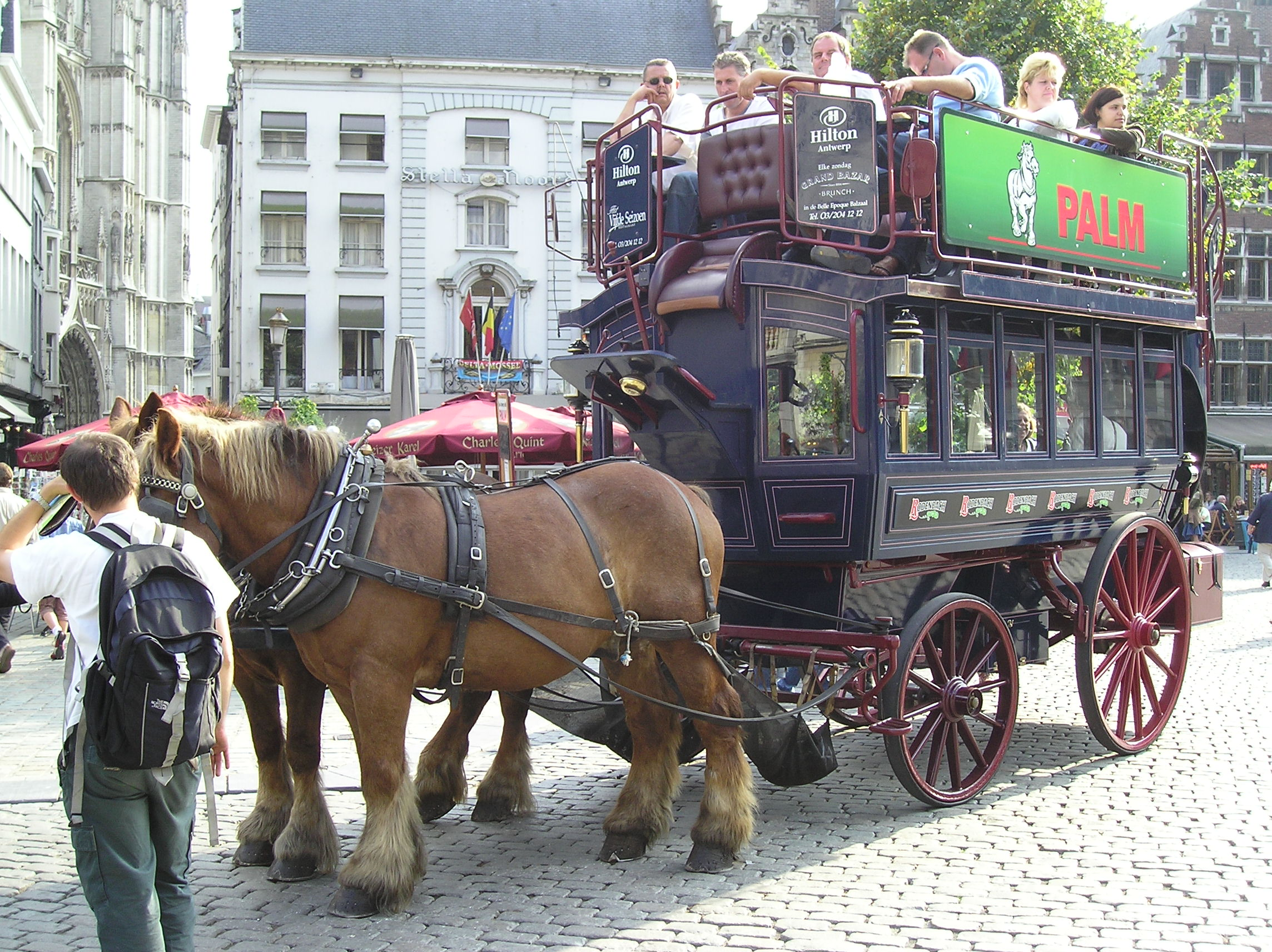 Horse omnibus for tourists, Antwerp.